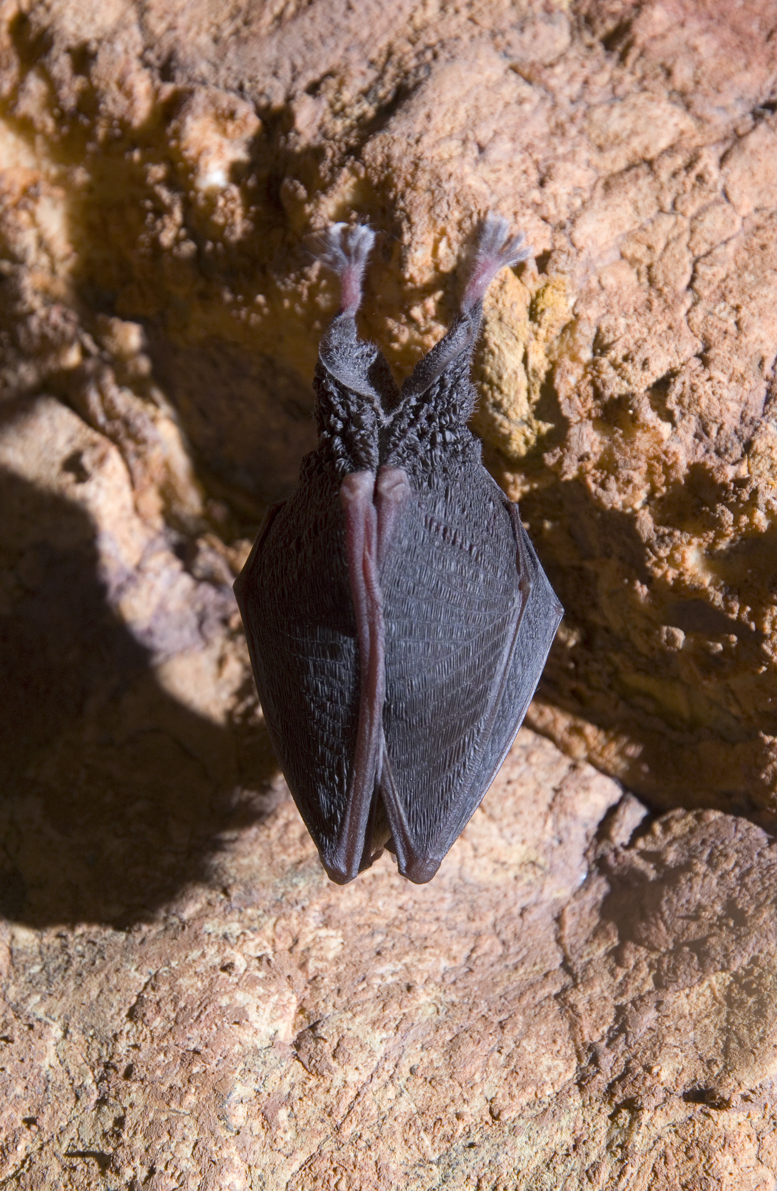 Lesser horseshoe bat from Czech carst